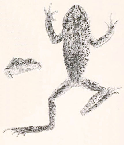 Scutiger boulengeri. Adapted from the original (Bedriaga, J. v. 1898. Amphibien und Reptilien, Wissenschaftliche Resultate der von N. M. Przewalski nach Central-Asien unternommenen Reisen